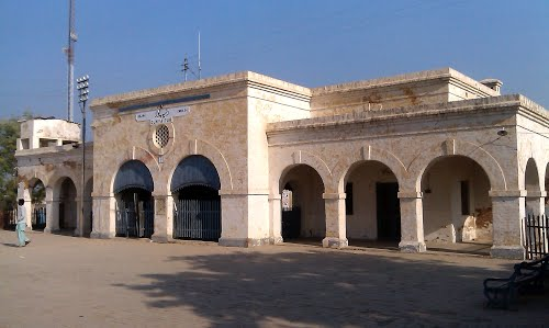 A look of Dunyapur Railway Station